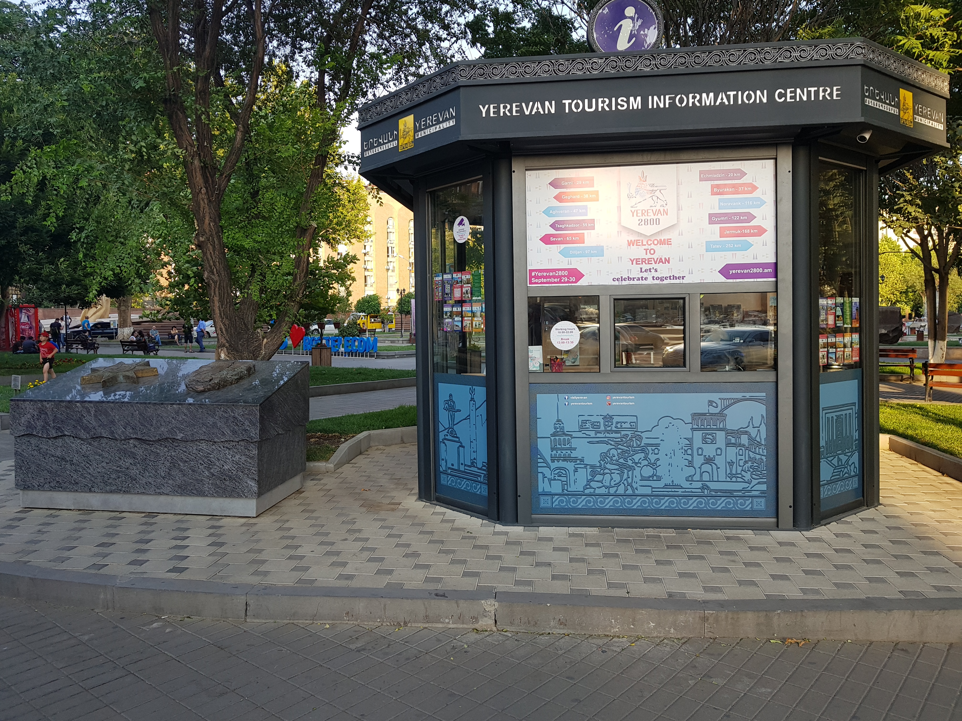 Yerevan Tourism Information Center on Nalbandyan Street of Yerevan